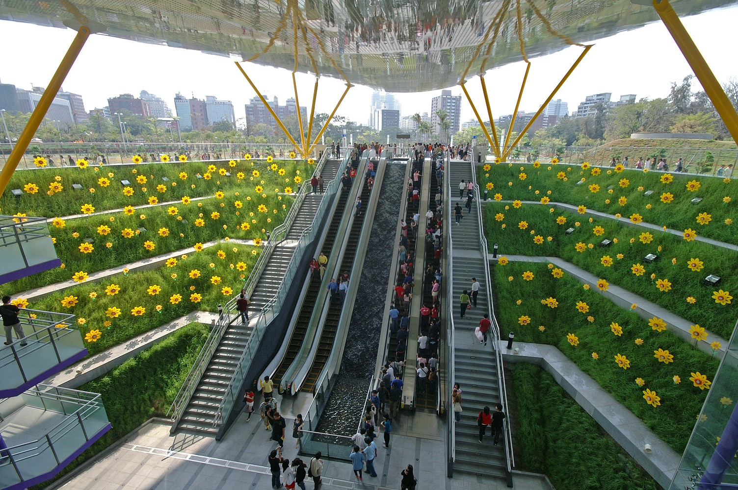 Entrance stairs and escalators of Central Park Station, Kaohsiung MRT.